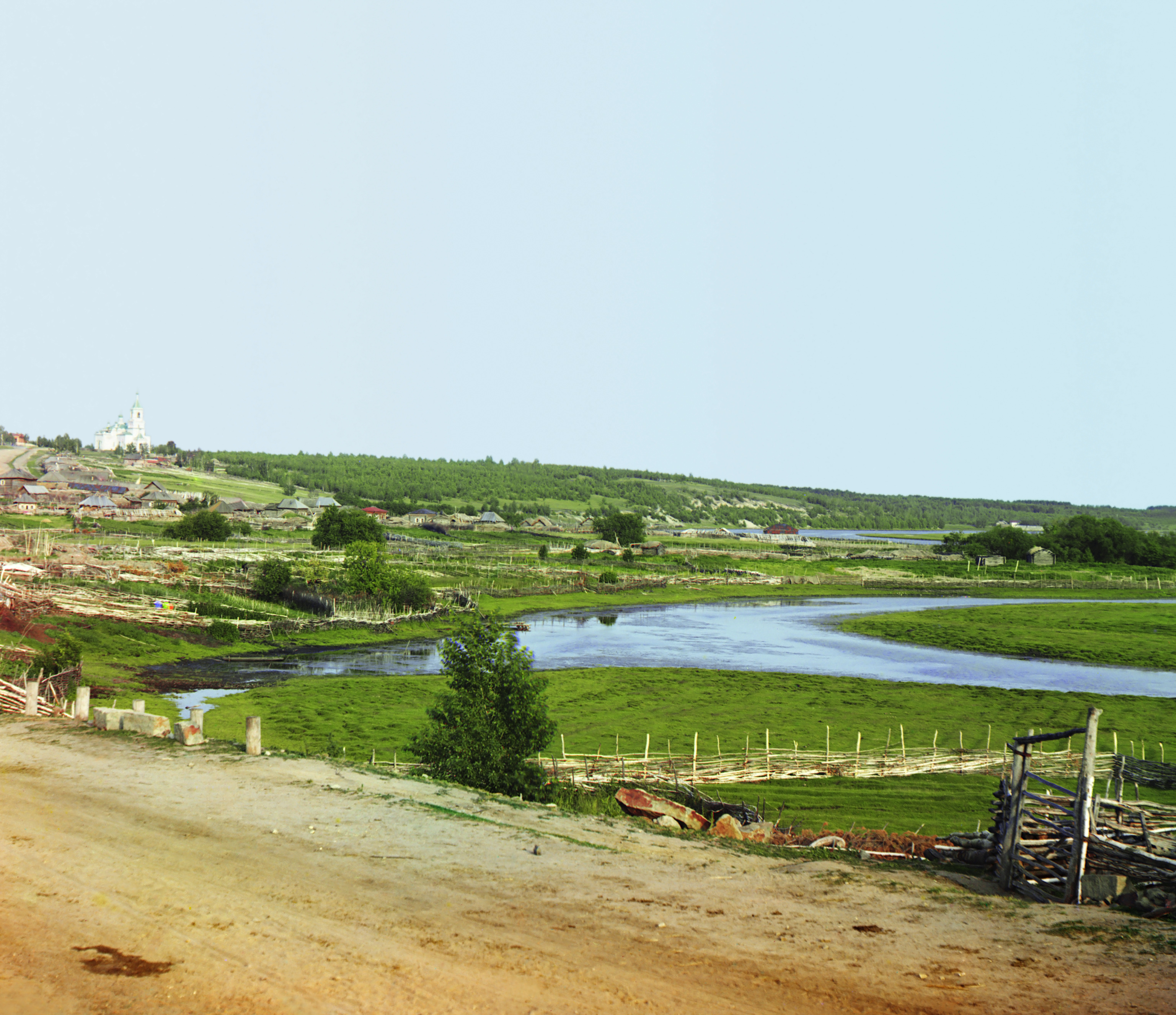 Original Description: Village of Vodolazy, five versts from the village of Kolchedan.